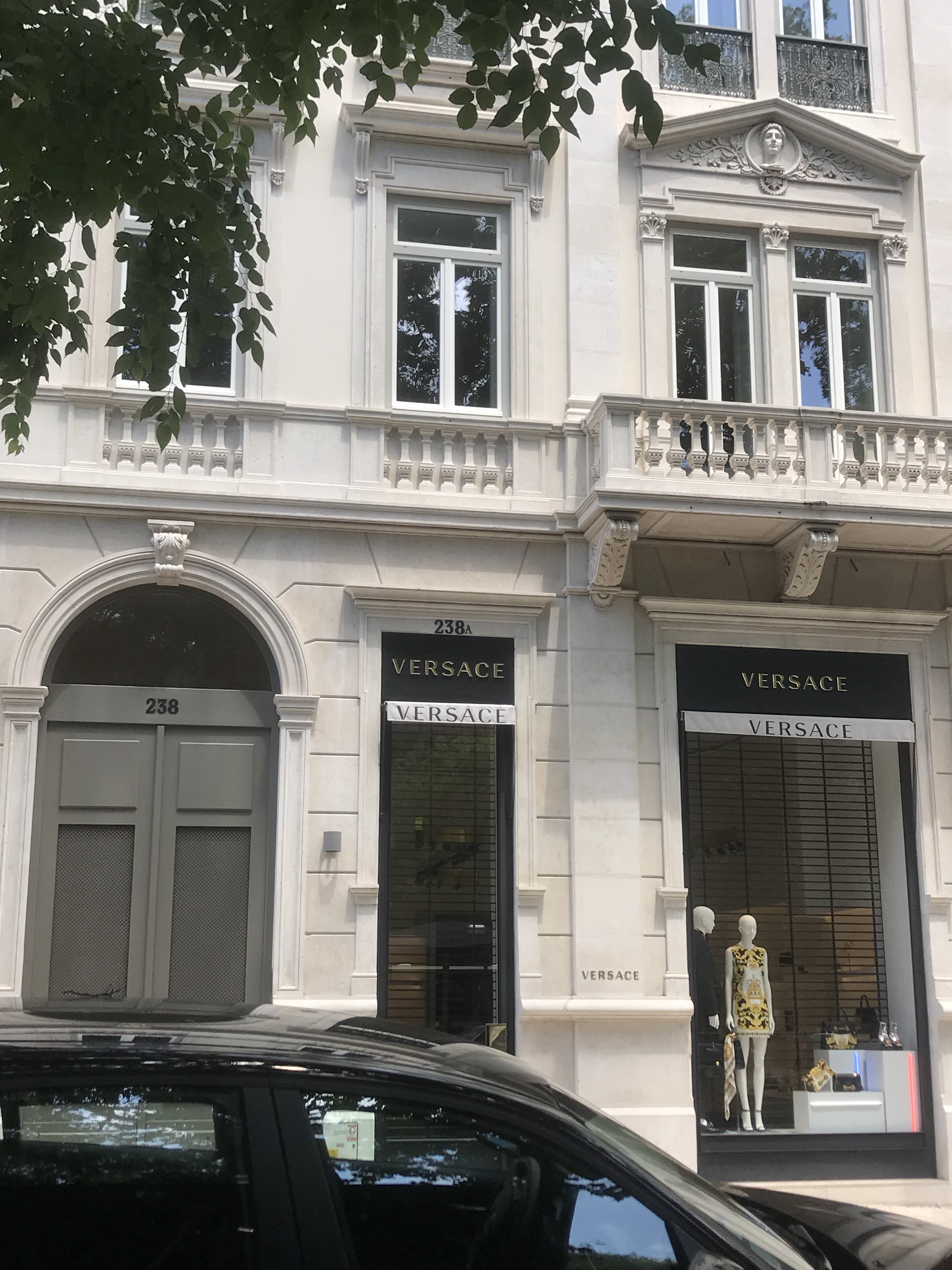 Versace boutique in Avenida da Liberdade, Lisbon.